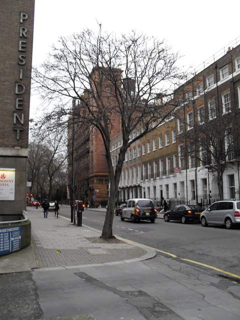 Winter trees in Guilford Street